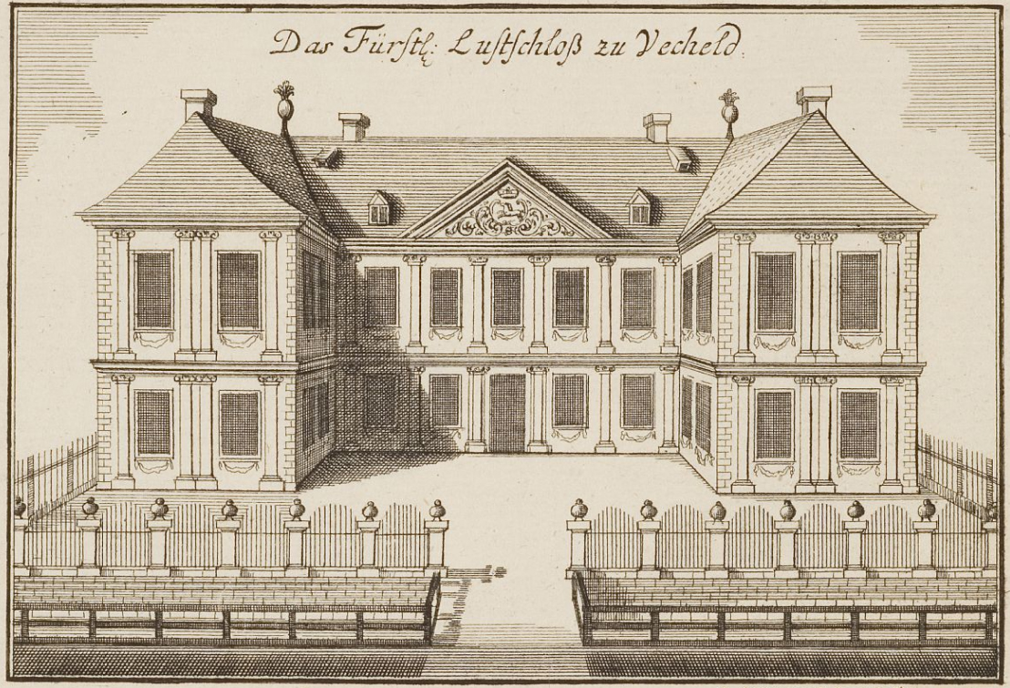 Vechelde castle, pleasure palace, summer residence, by architect Hermann Korb.